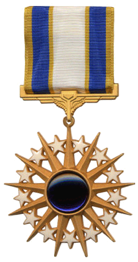 The Air Force Distinguished Service Medal of the United States Air Force